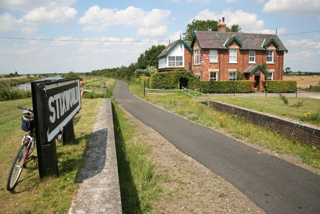 Stixwould Station Looking west on the Water Rail Way cycle trail